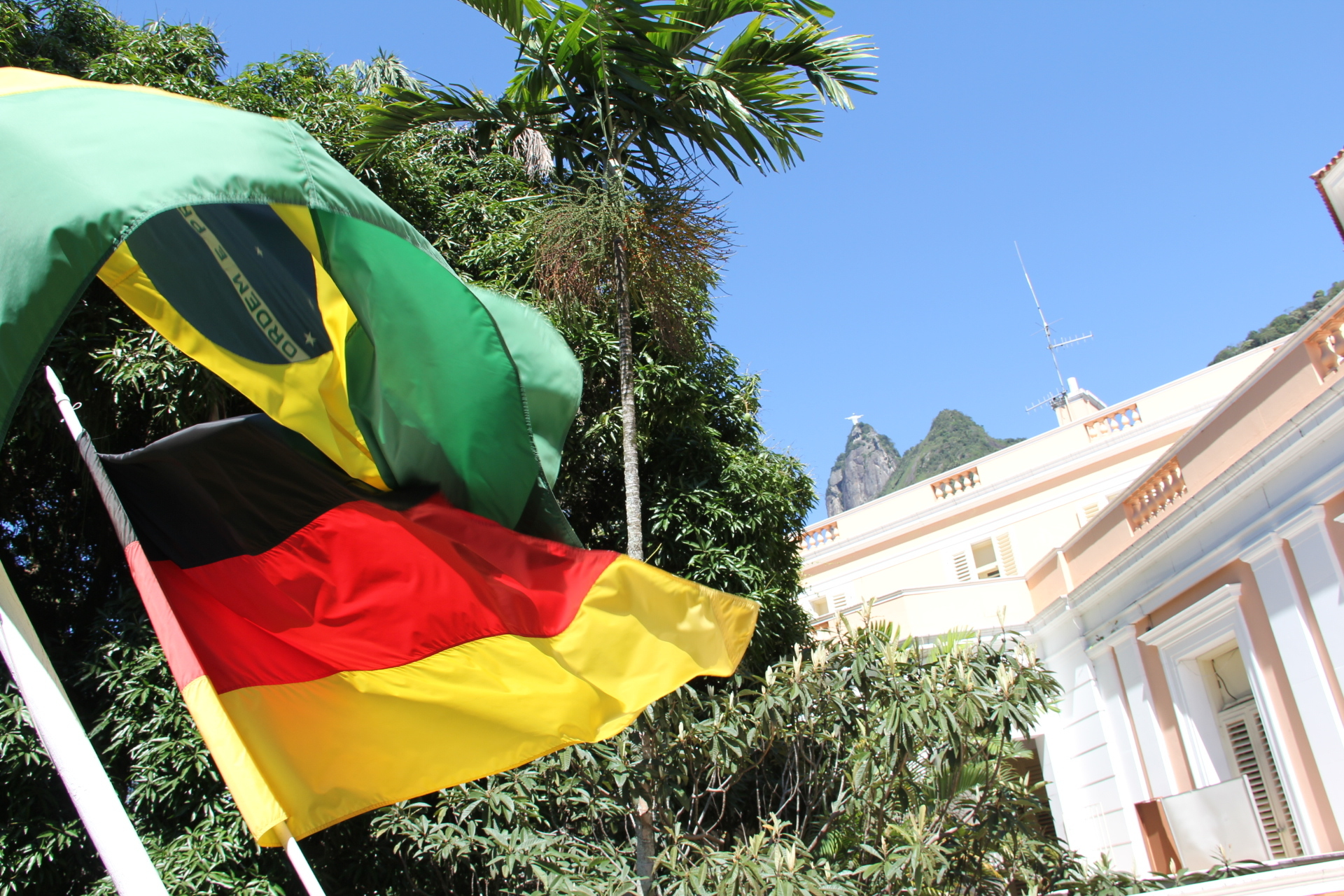 Deutsche Schule Rio de Janeiro